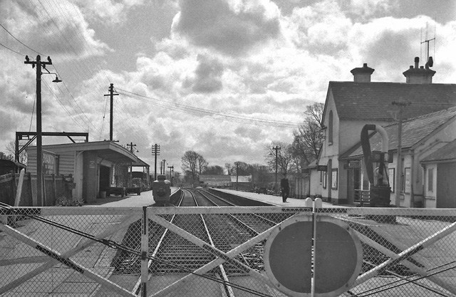 Braunton Station. View southward, towards Barnstaple Junction; ex-London & South Western, Exeter - Barnstaple Junction - Ilfracombe line. The station was closed with the line completely on 5/10/70